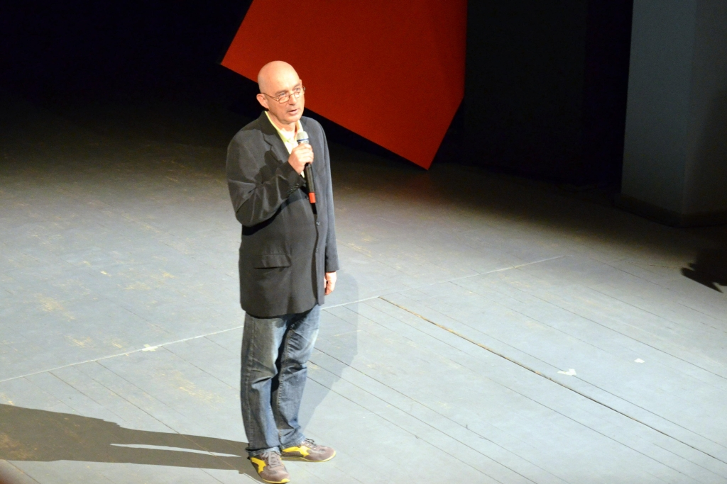 Maciej Patronik (Regisseur)